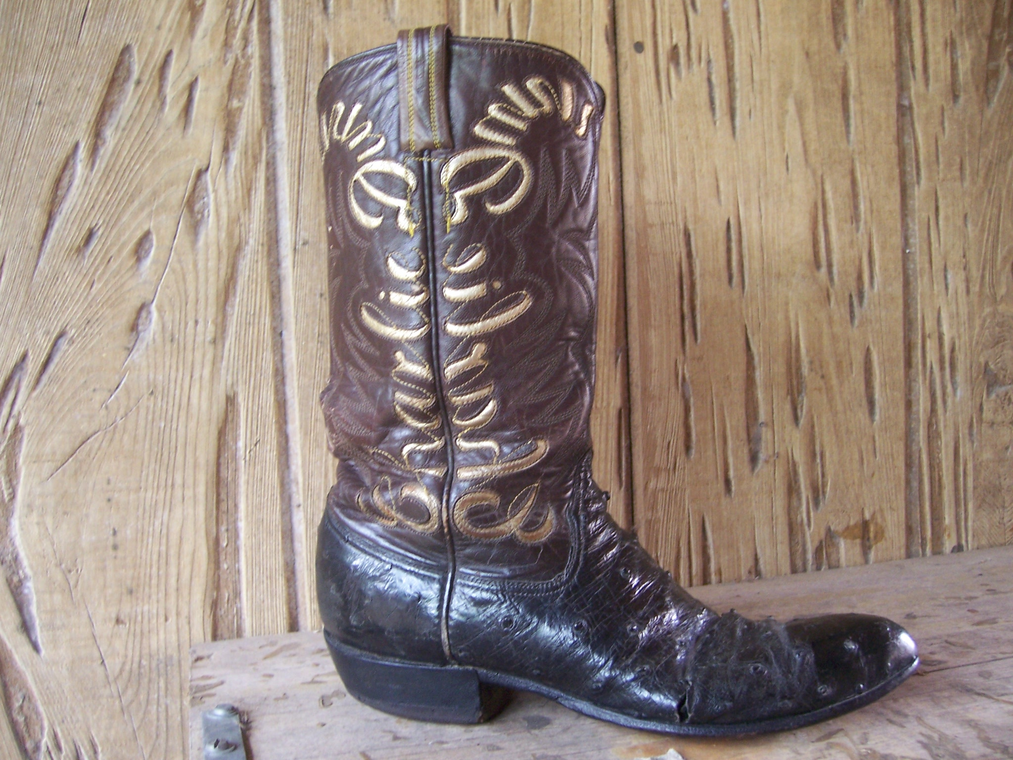 cowboy boot design with mirrored text